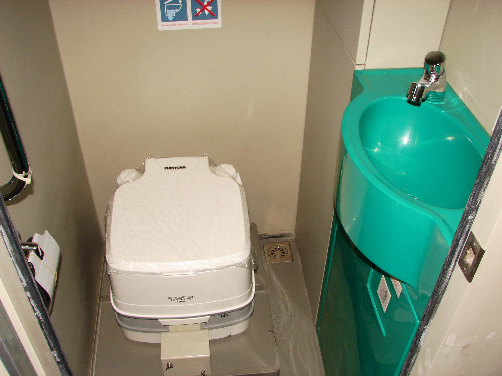 Toilet on TFR Class 22E no. 22-013Location: Pyramid South